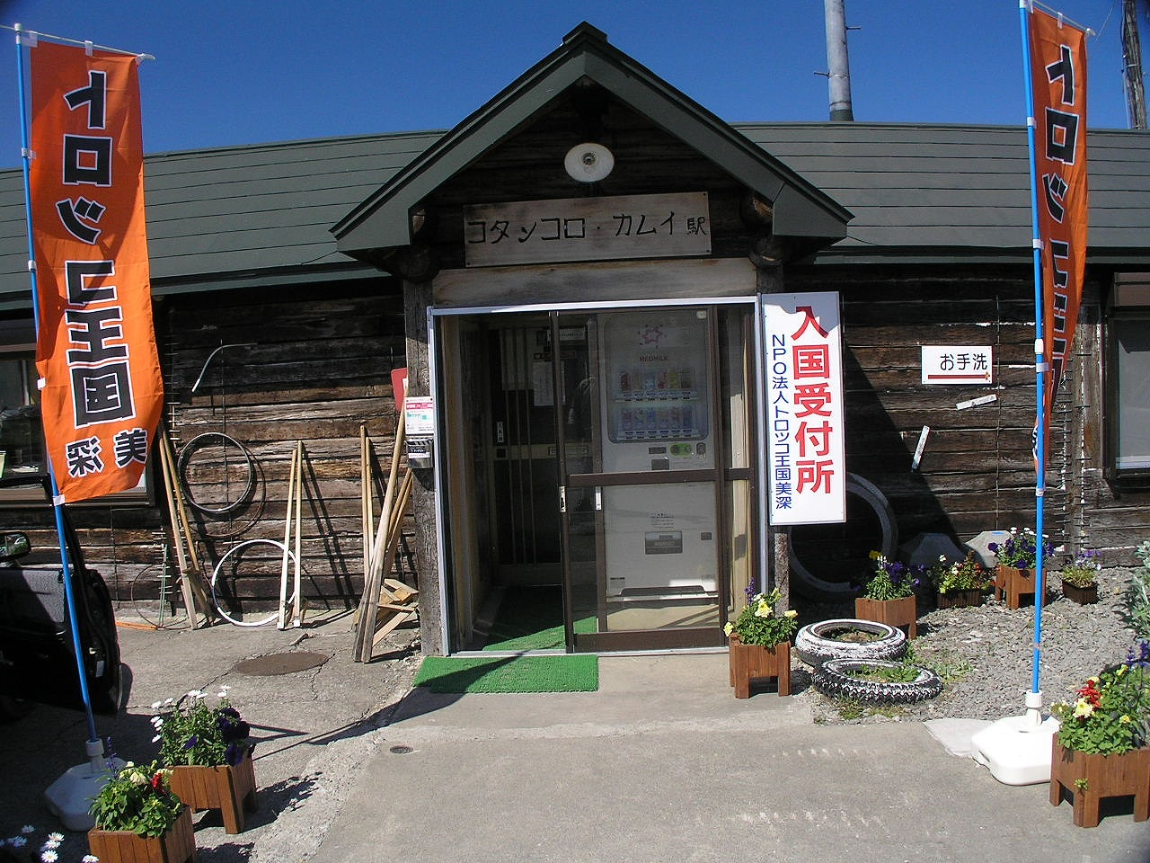 Kotan Kor Kamuy Station on Torokko Kingdom Bifuka